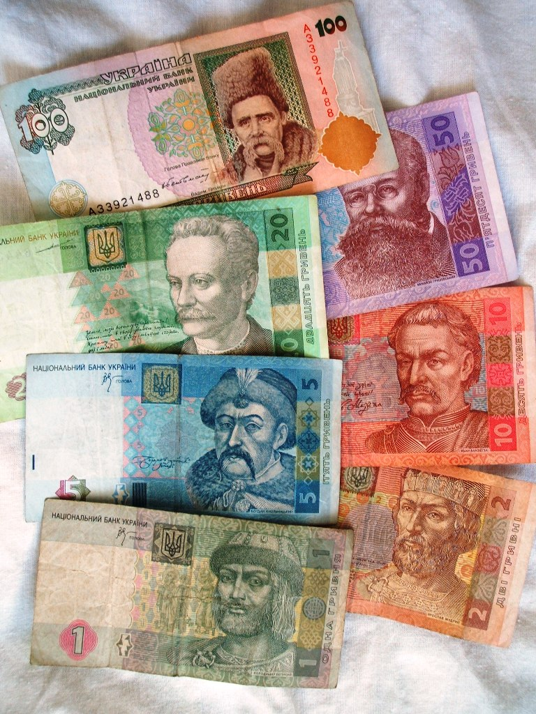 Here are the figures on all the Ukrainian banknotes, from 1 to 100.